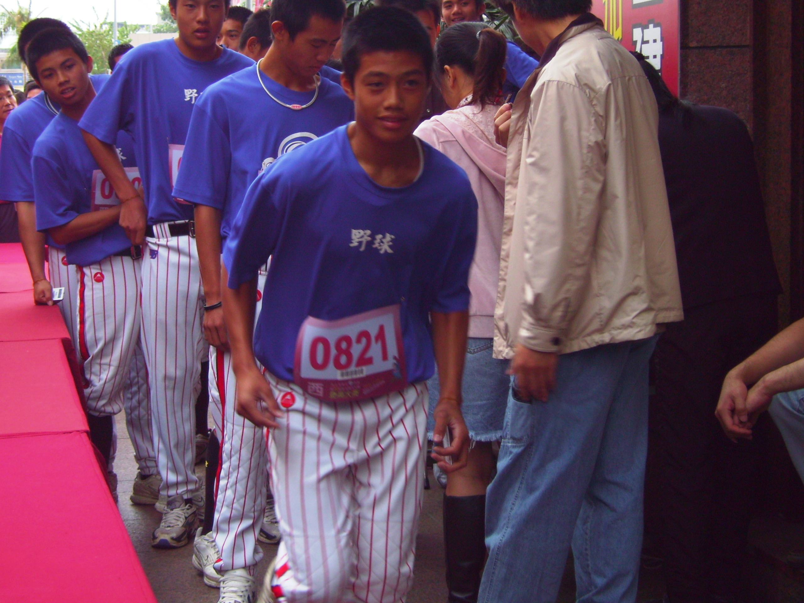 Taipei National Special Olympic Committee participated the 22nd SKL Run Up.